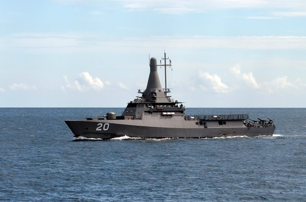 Republic of Singapore Navy Littoral Mission Vessel RSS Fortitude undergoing sea trials in the Singapore Straits in 2018